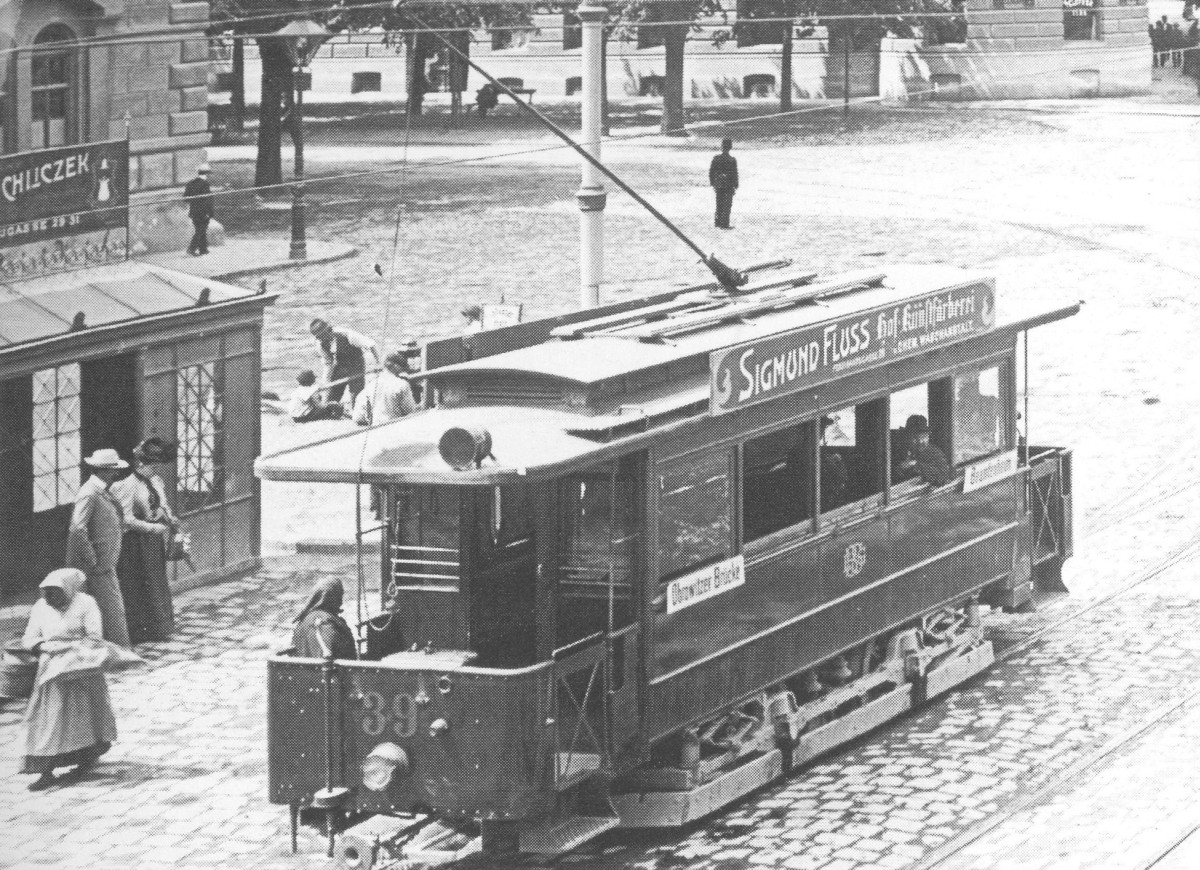 Tram No. 39, Brno, Moravia (now Czech Republic)